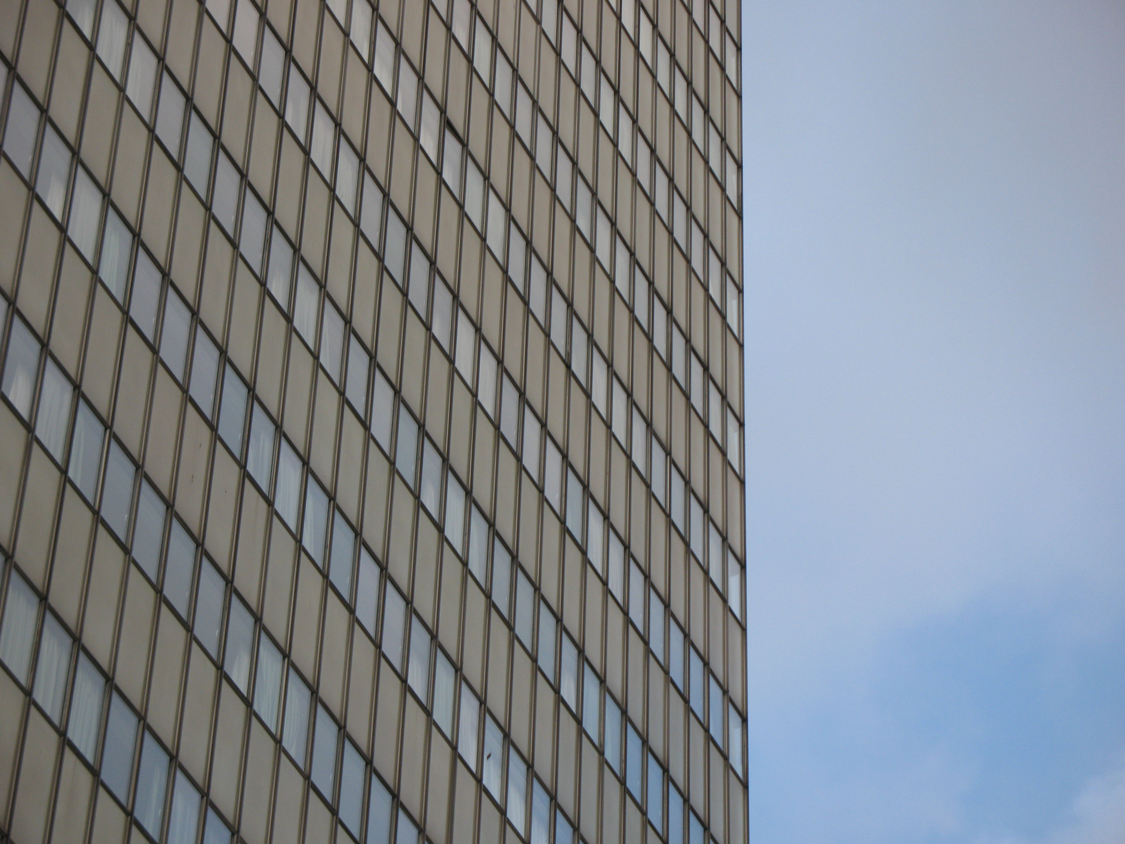 Shows the fassade of the Radisson SAS Royal Hotel Kopenhagen